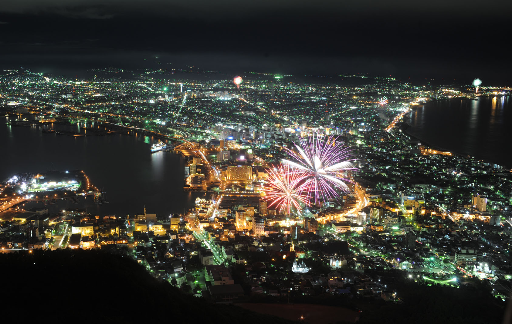 Play of fireworks and night scenes in HAKODATE city